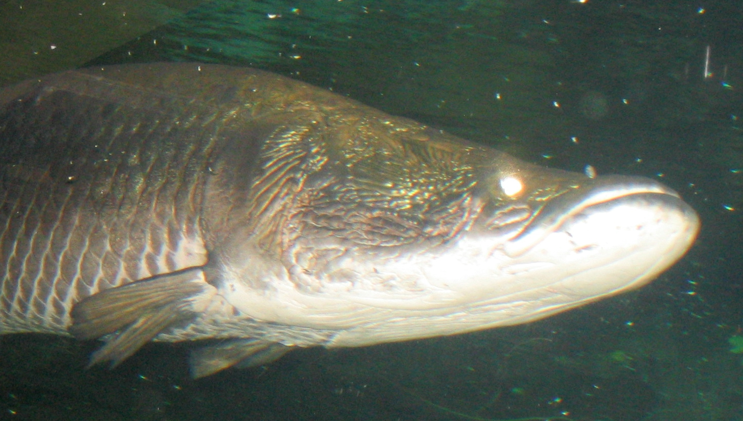 Arapaima gigas at the Smithsonian Zoo.